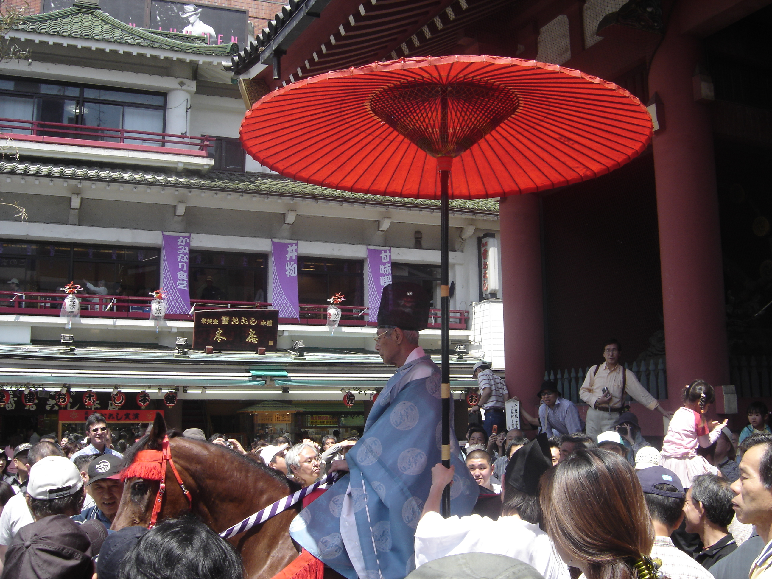 A Shinto priest emerges from the Kaminarimon gate during a Sunday parade at Sanja Matsuri.